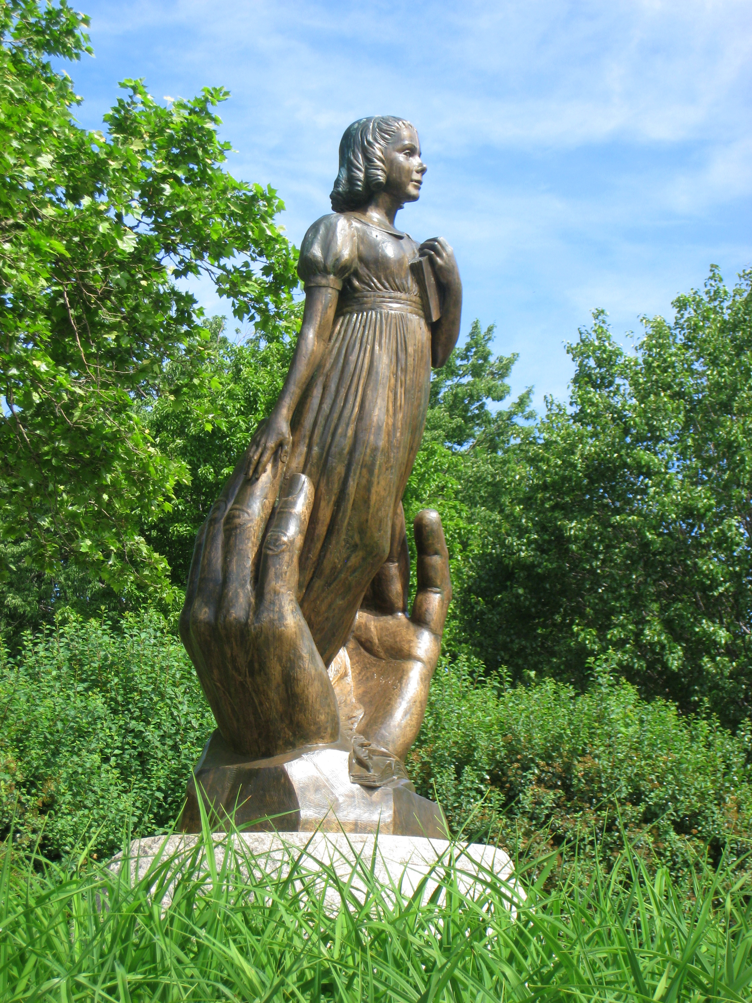 Statue of Alice Cogswell, daughter of a founder of the Connecticut Asylum for the Education and Instruction of Deaf and Dumb Persons (now called the American School for the Deaf), and its first pupil. This statue honors Thomas Hopkins Gaulladet, Mason Fitch Cogswell, and Laurent Clerc, the school's founders. Sculpted by Frances L. Wadsworth.